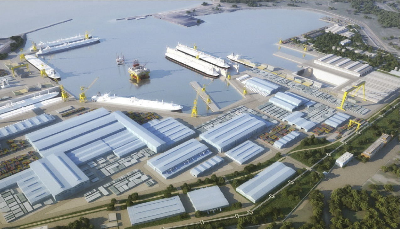 Zvezda-DSME shipyard